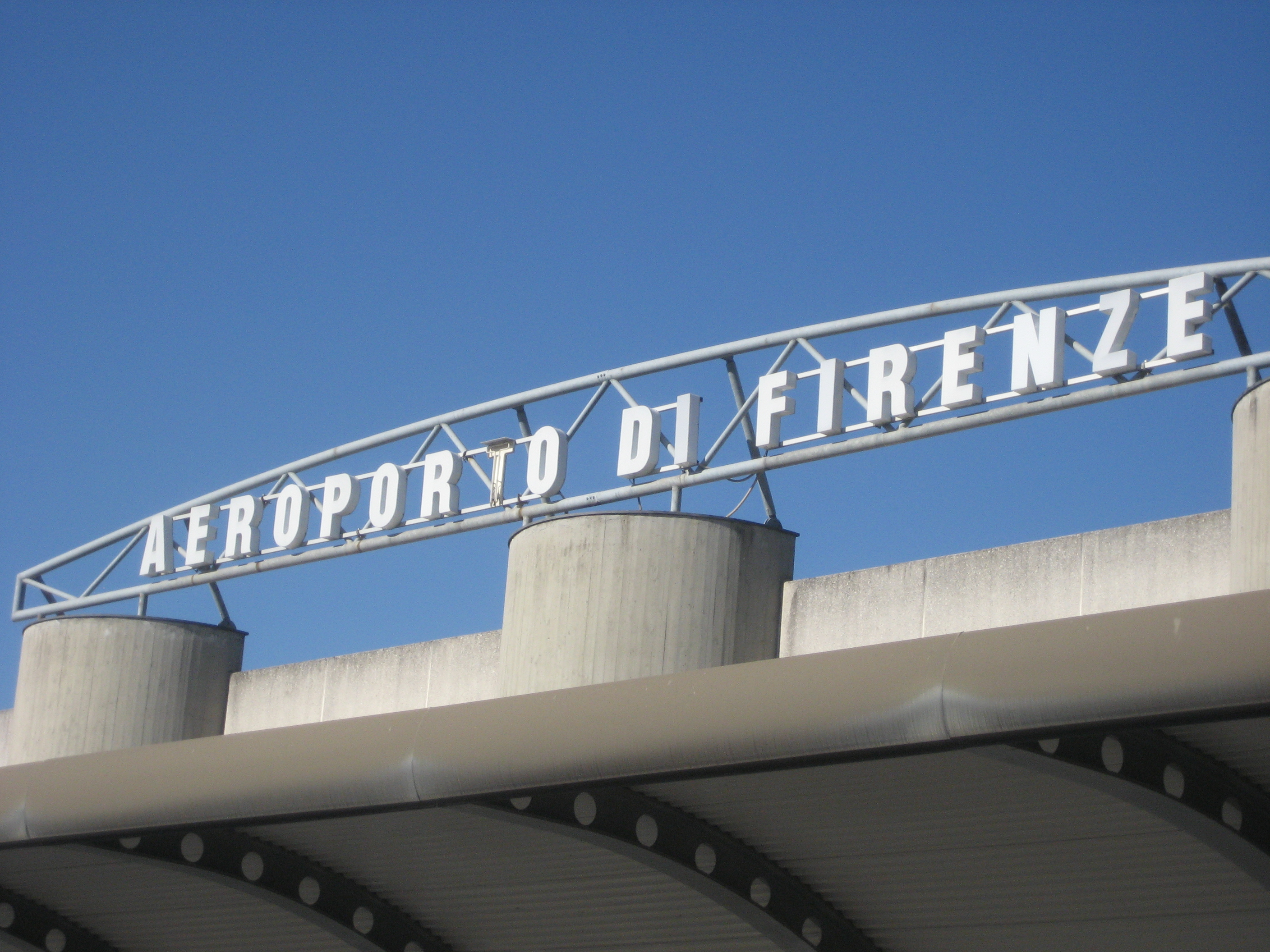 Florence Airport / Aeroporto di Firenze